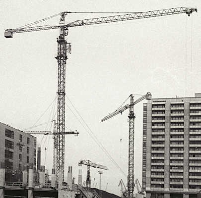 A stayed Potain 646A crane in Merihaka, Helsinki, Finland